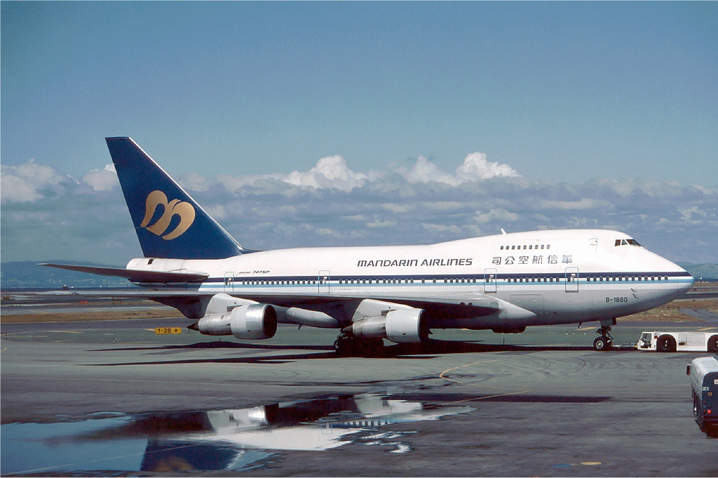 Mandarin Airlines Boeing 747SP at San Francisco - International (SFO / KSFO).